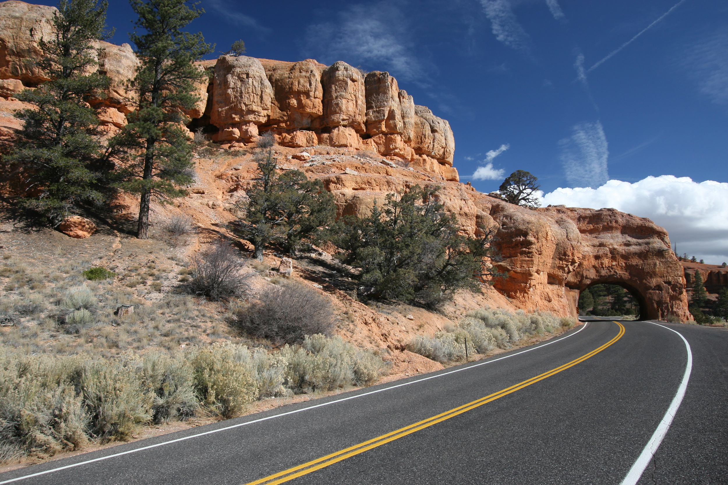 Photo on the Utah State Route 12 leading to Bryce Canyon National Park.